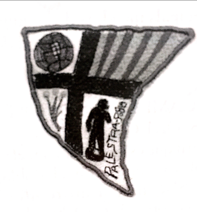 Escut del Palestra de Pobla (1932)